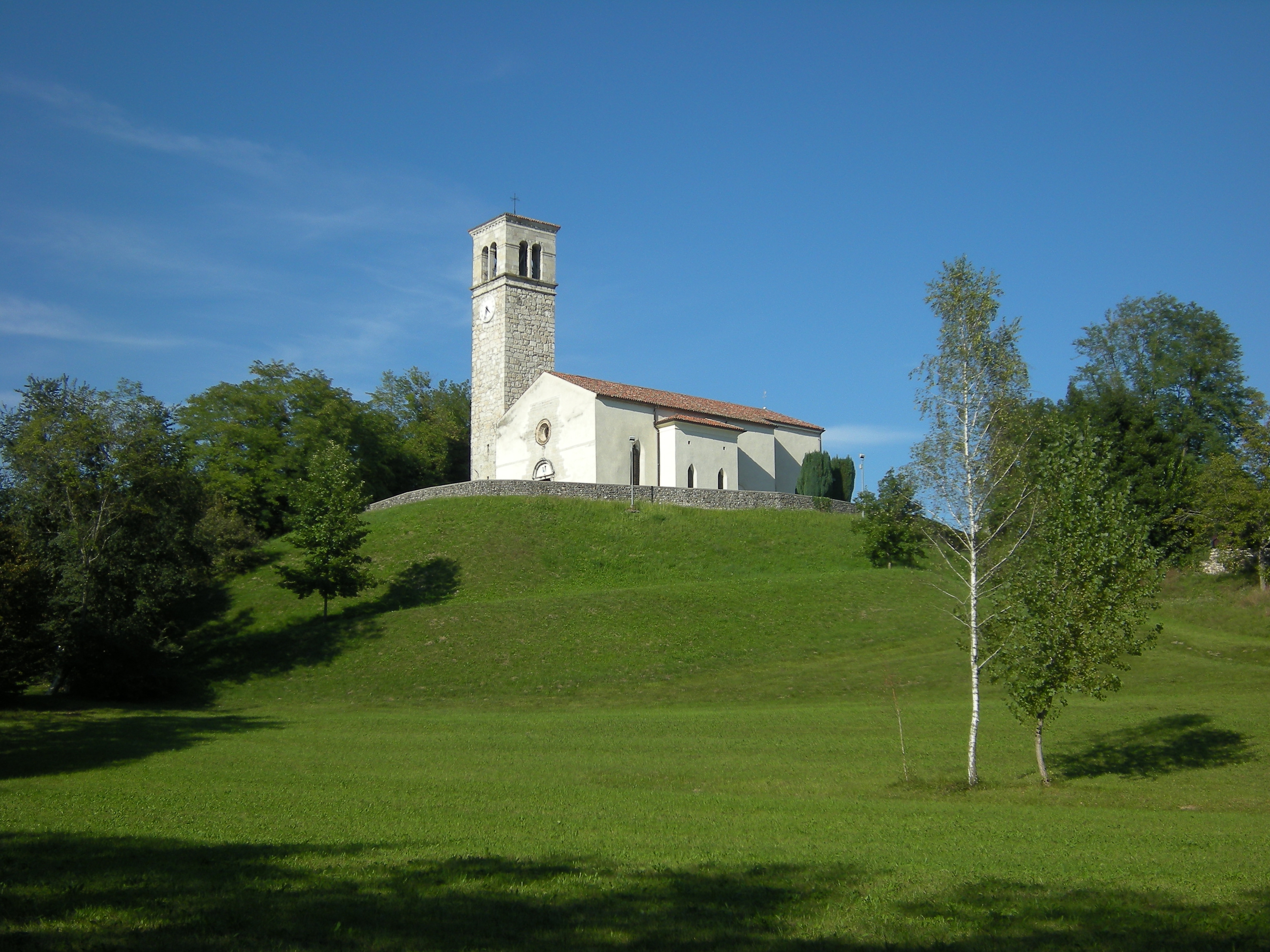 The church of S. Stefano in Valeriano